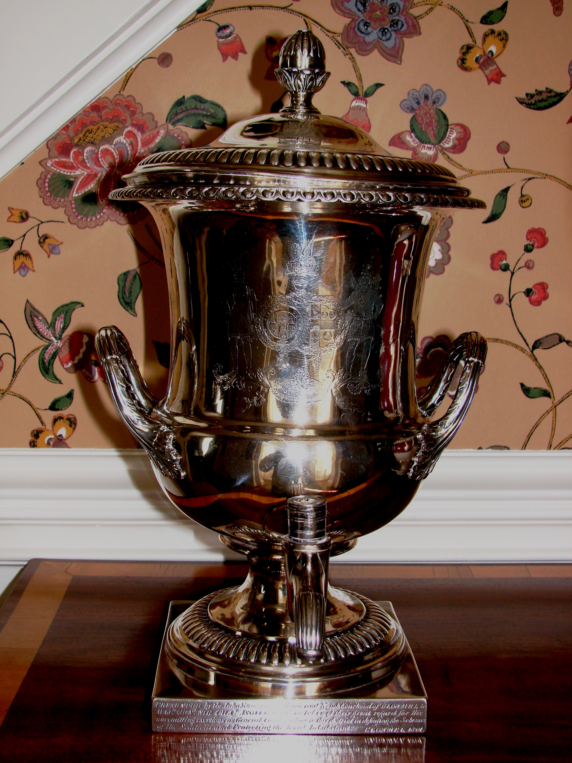 At the end of the Irish Uprising of 1798 the people of Clonmel presented General Sir Charles Asgill with a hot water urn to show their appreciation.